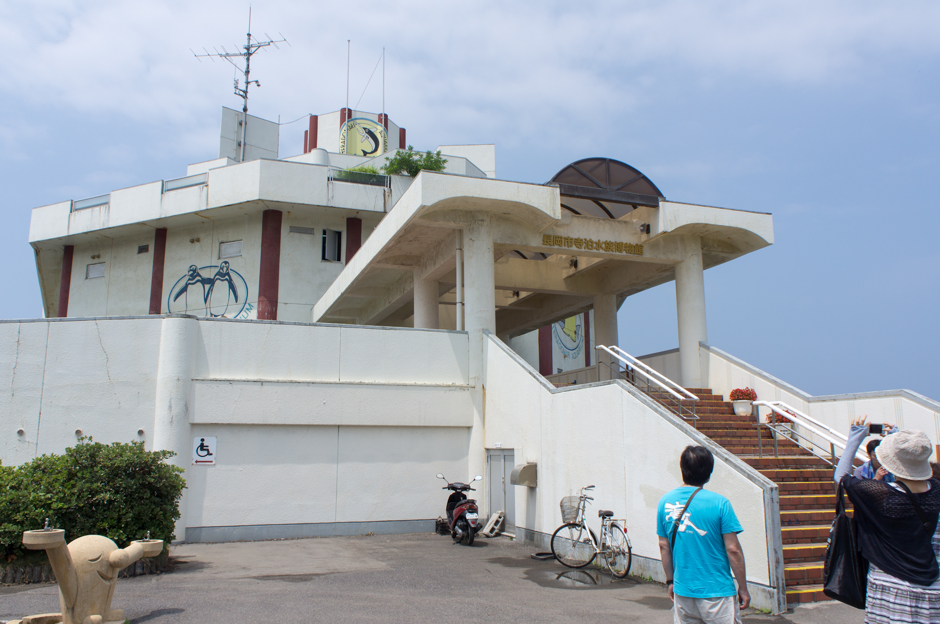 Teradomari Aquarium in Nagaoka, Niigata prefecture, Japan